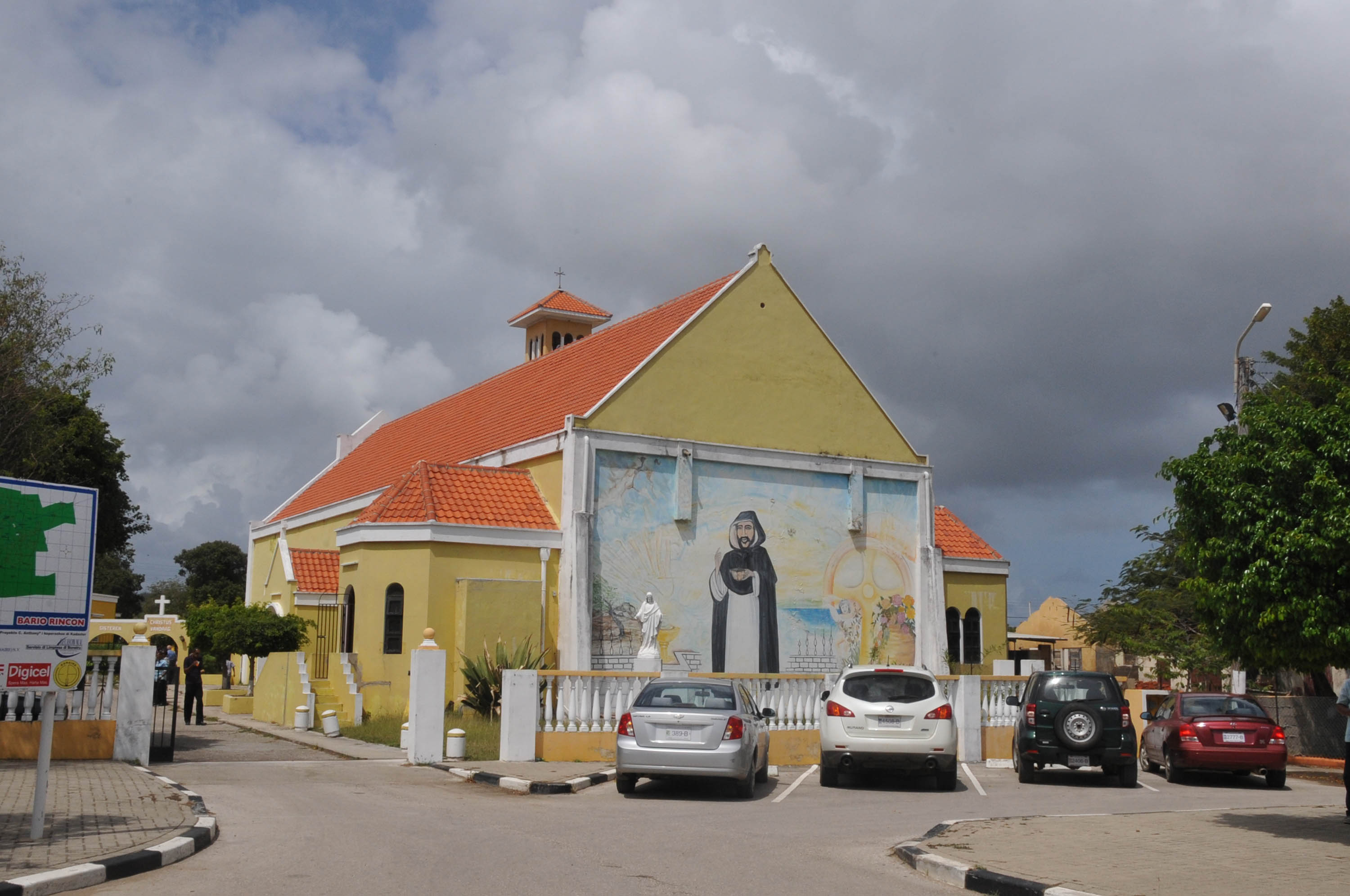 CATHOLIC CHURCH IN RINCON